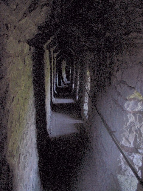 Passage down to the cave in Carreg Cennen Castle. This passage runs east along the south wall, descending below the normal level of the castle to a cave below. Enjoy the light from the poorly fortified windows in the south wall. It will be your last since the cave is completely dark.